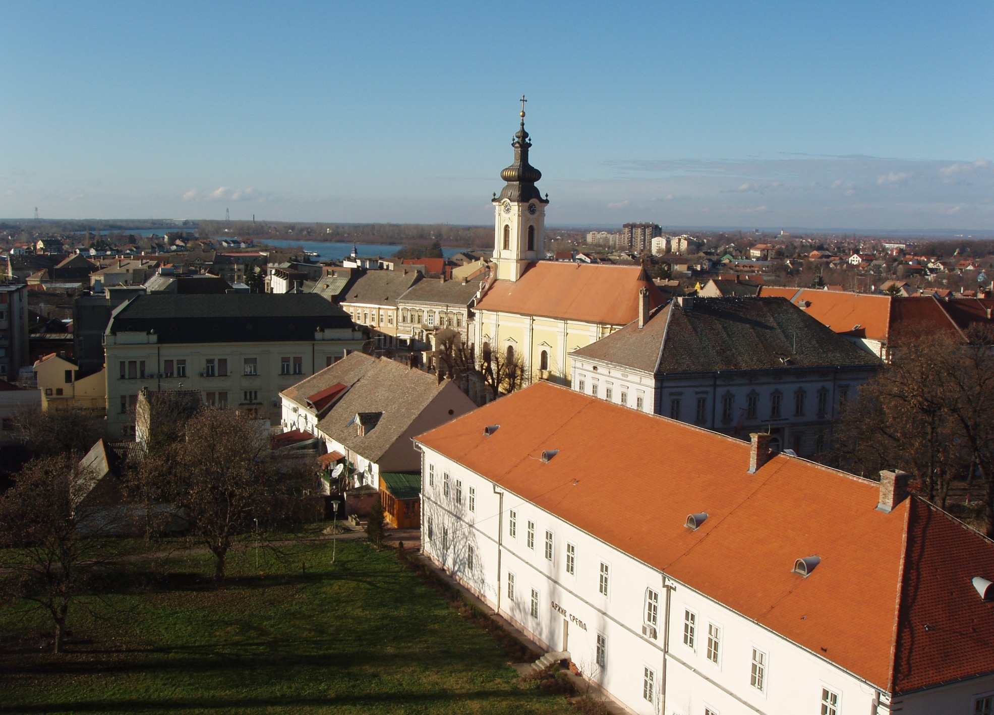 Panoramic view of Sremska Mitrovica, Serbia, Vojvodina